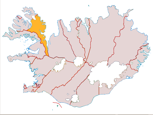 A map of the county Strandasýsla in Iceland. Based on a map from the National Land Survey of Iceland. No copyright protedtion on the original map. "Á þessari síðu eru sett fram nokkur kort sem heimilt er að nota í ýmsum tilgangi, án sérstaks leyfis frá stofnuninni. Fleiri kort munu bætast við á næstunni. Smelltu á kortið og þú færð upp stærri mynd.